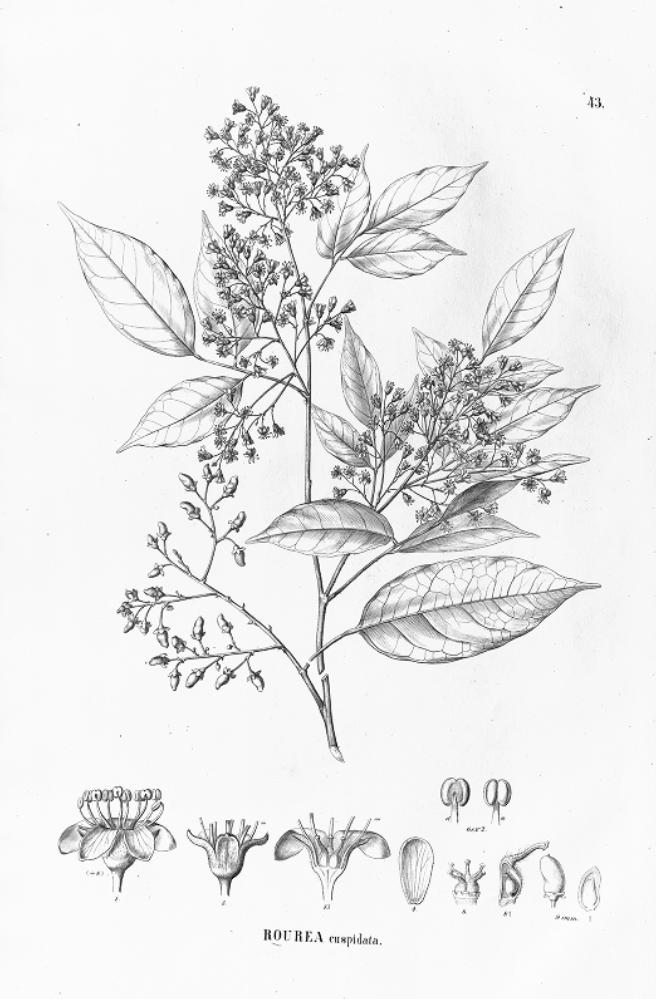 Illustration of Rourea cuspidata